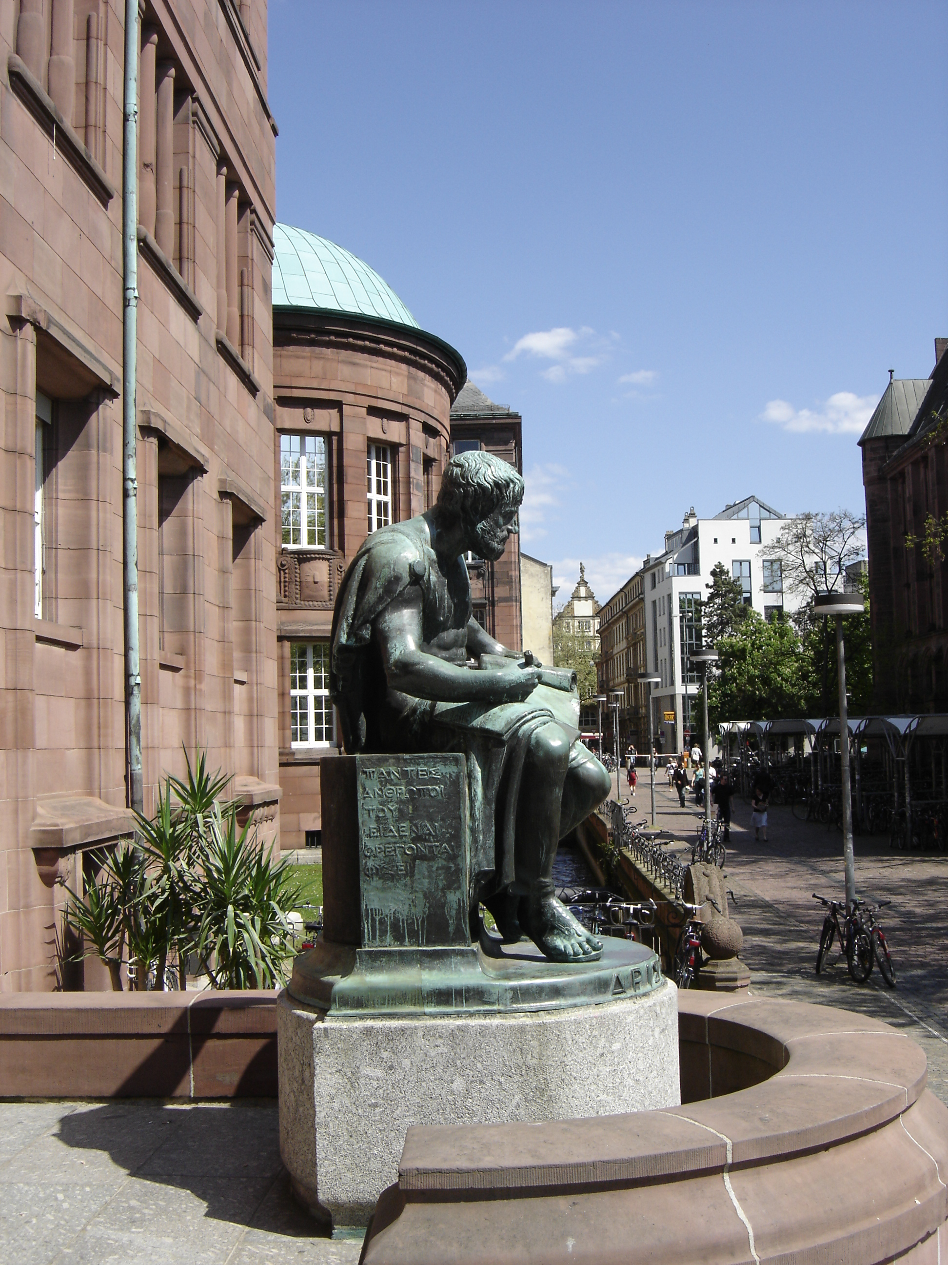 Statue of Aristotle at the university of Freiburg im Breisgau, Germany.